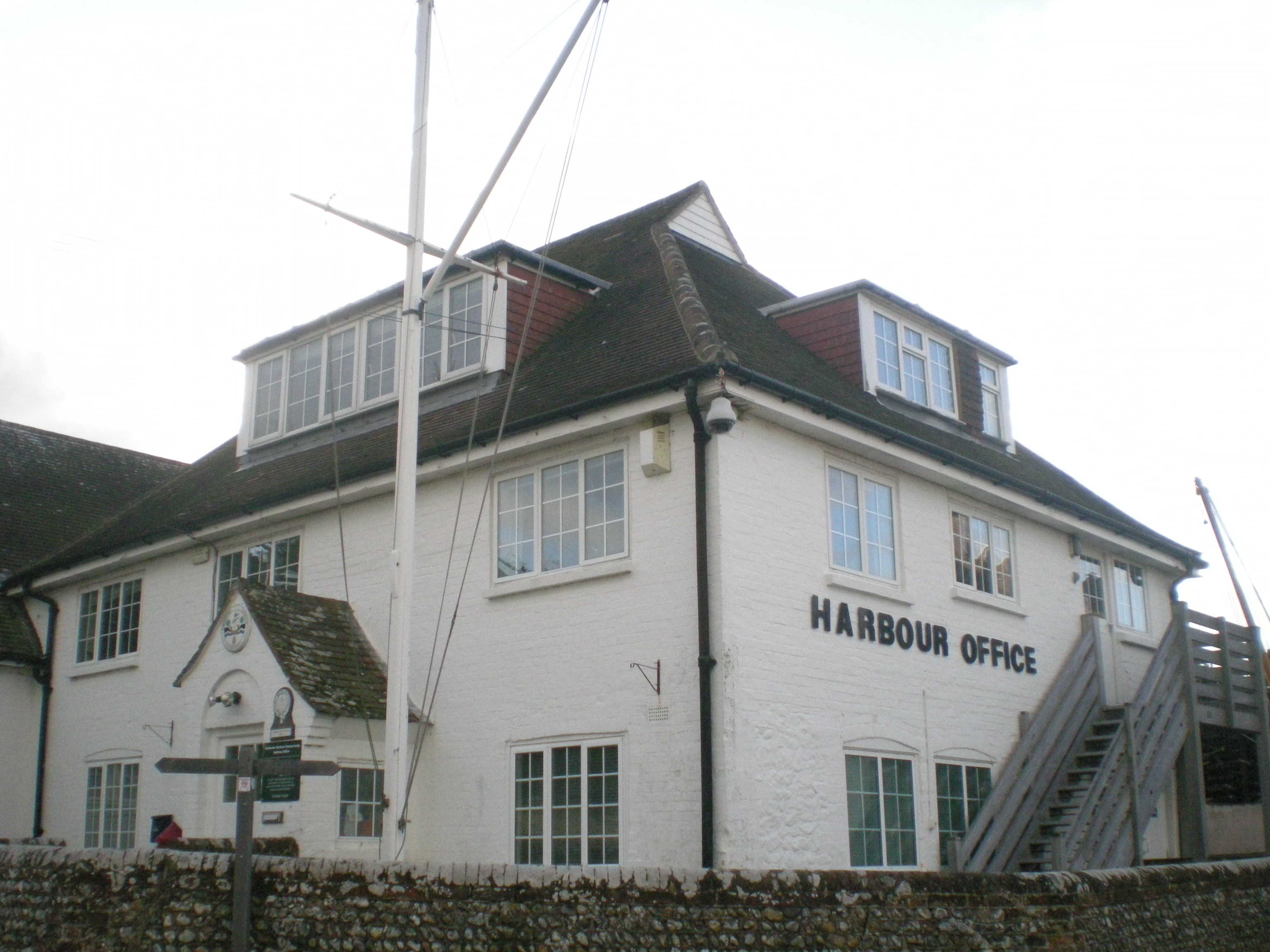 The Chichester Harbour Master's HQ